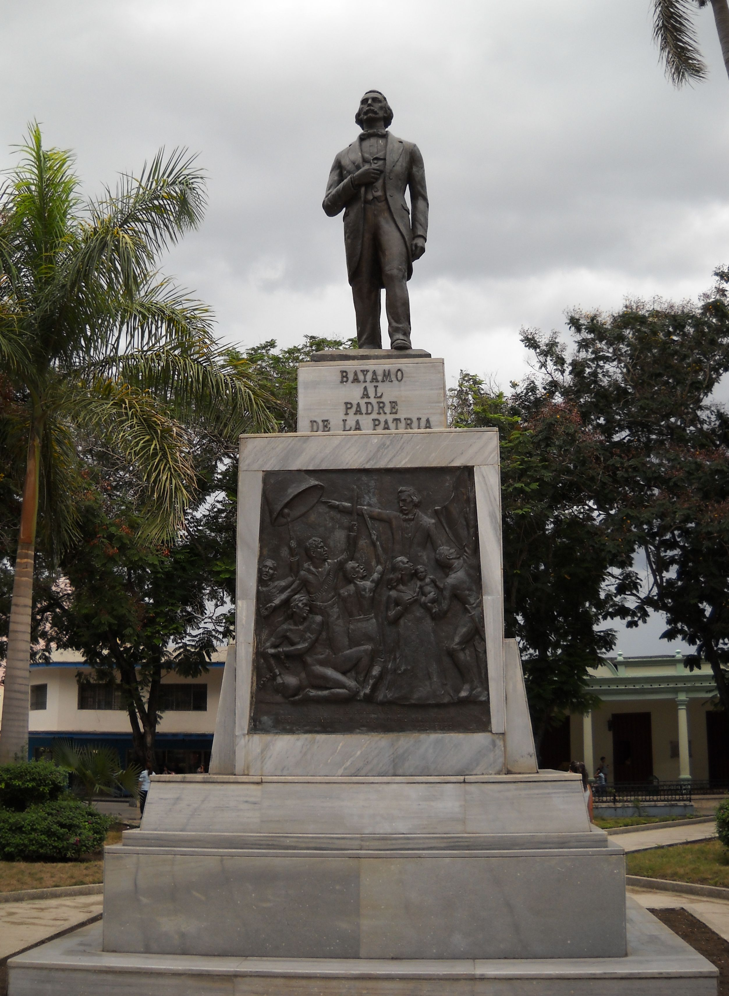 Statue of Carlos Manuel de Céspedes in Cespedes Park, in Bayamo, Cuba.